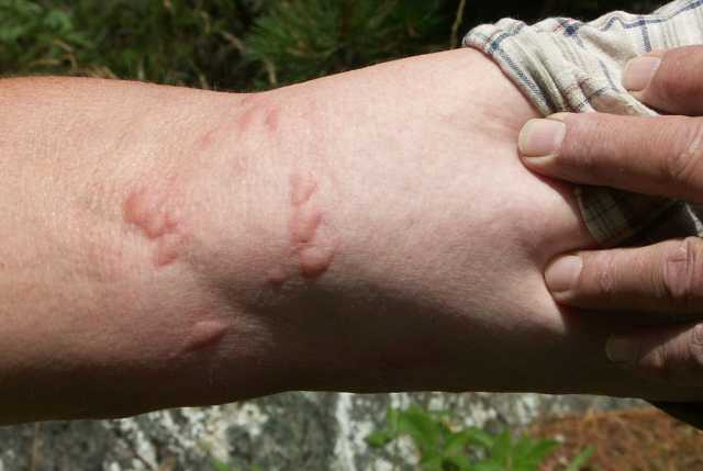 Arm with ant stings